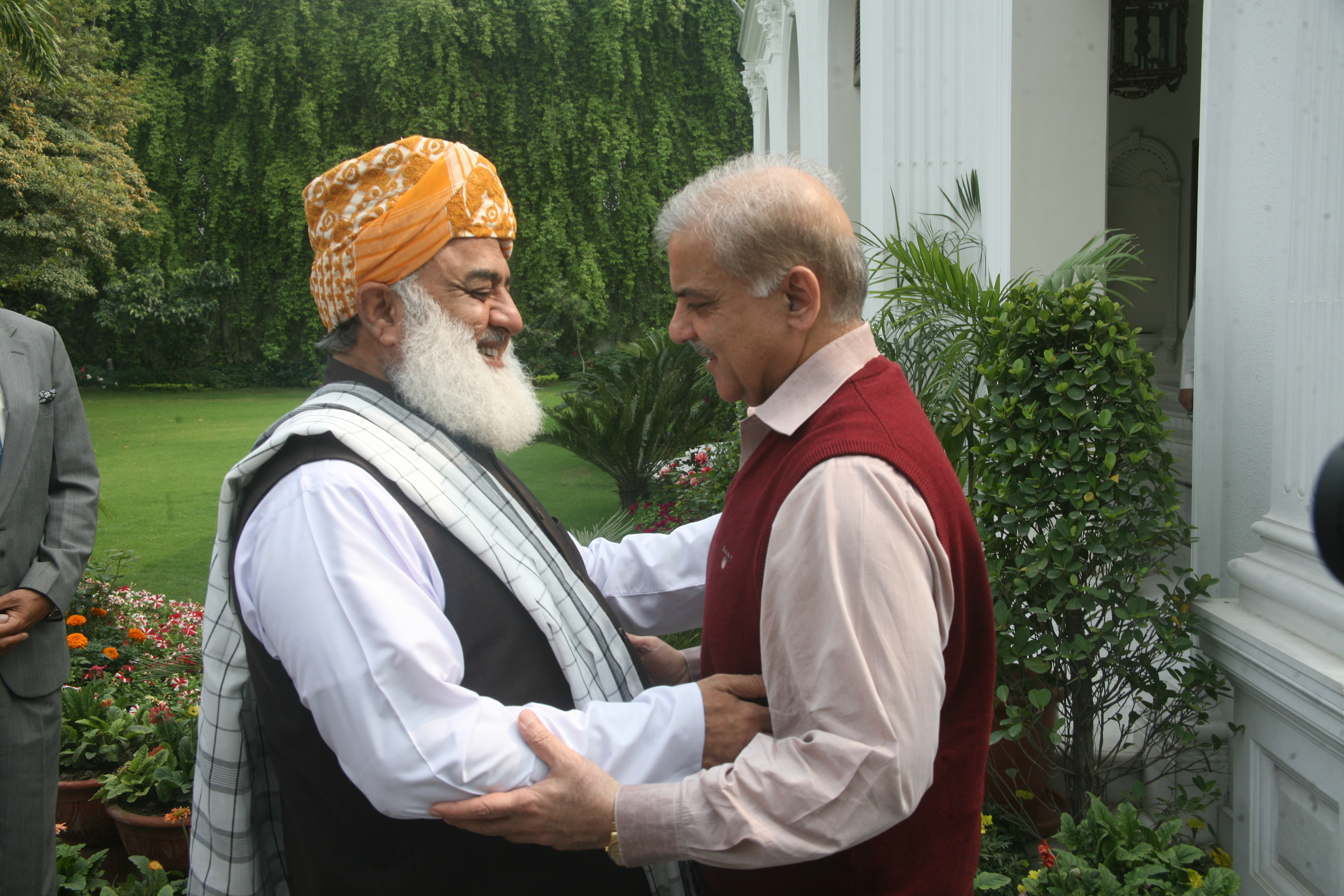 CM Shehbaz with Fazl-ur-Rehman